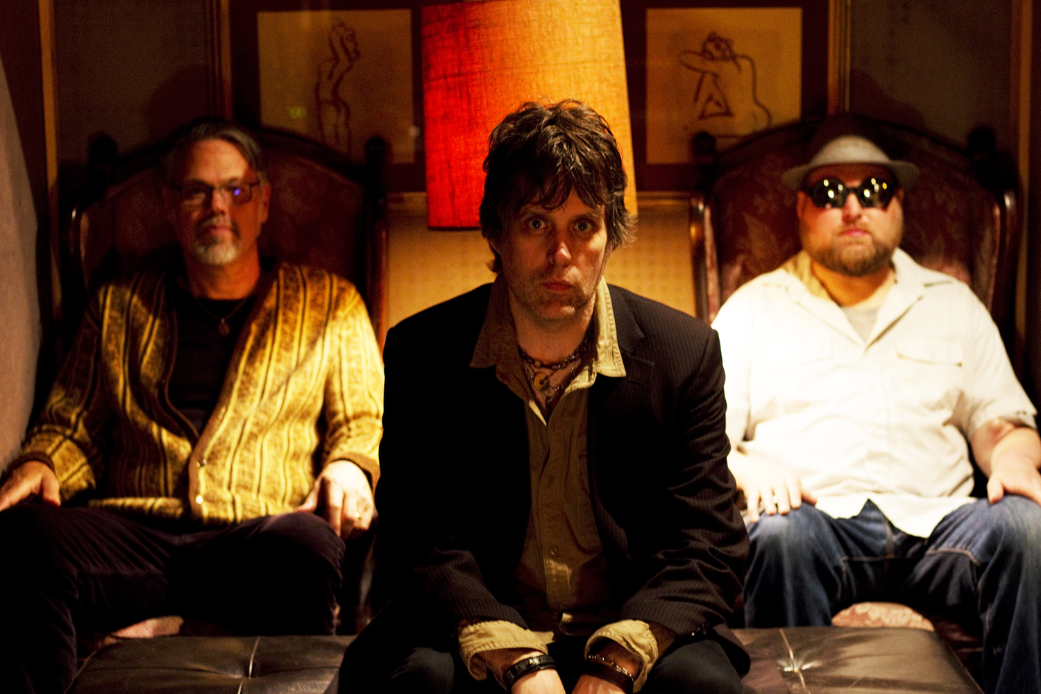 Detroit rock and roll band Jeremy Porter and The Tucos promotional photo for their third album 'Don't Worry, It's Not Contagious' shot at The Loft Recording Studio in Saline, MI June 2017 by EonZero.